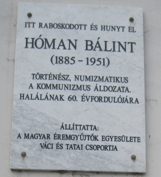 Bálint Hóman commemorative plaque in Vác. Köztársaság Street No 62-64.